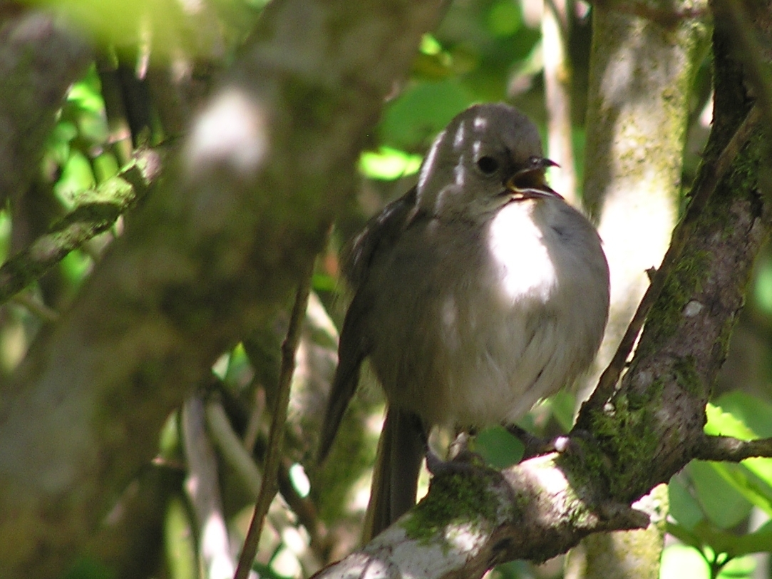 NZ Popokotea or Whitehead singing, Wrights Hill, Wellington, New Zealand.